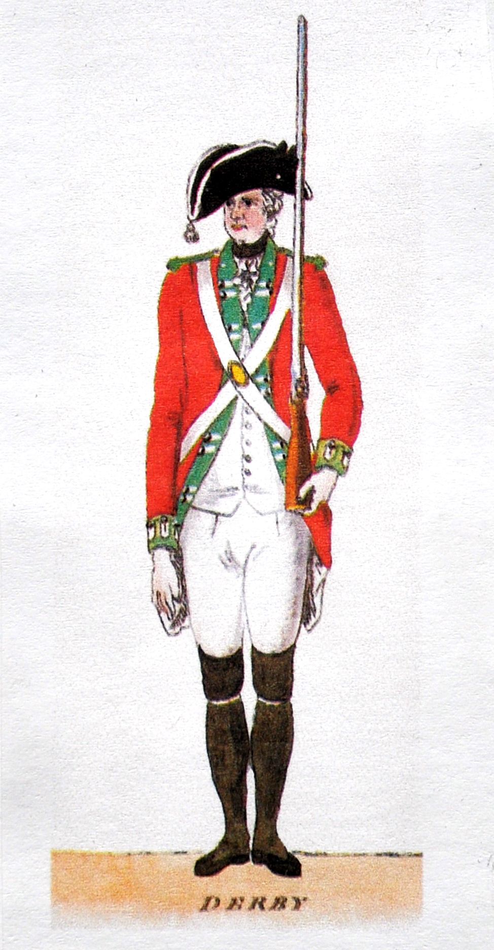 Watercolour by an unknown artist, depicting a militia private from the Debyshire Volunteers, around 1780.